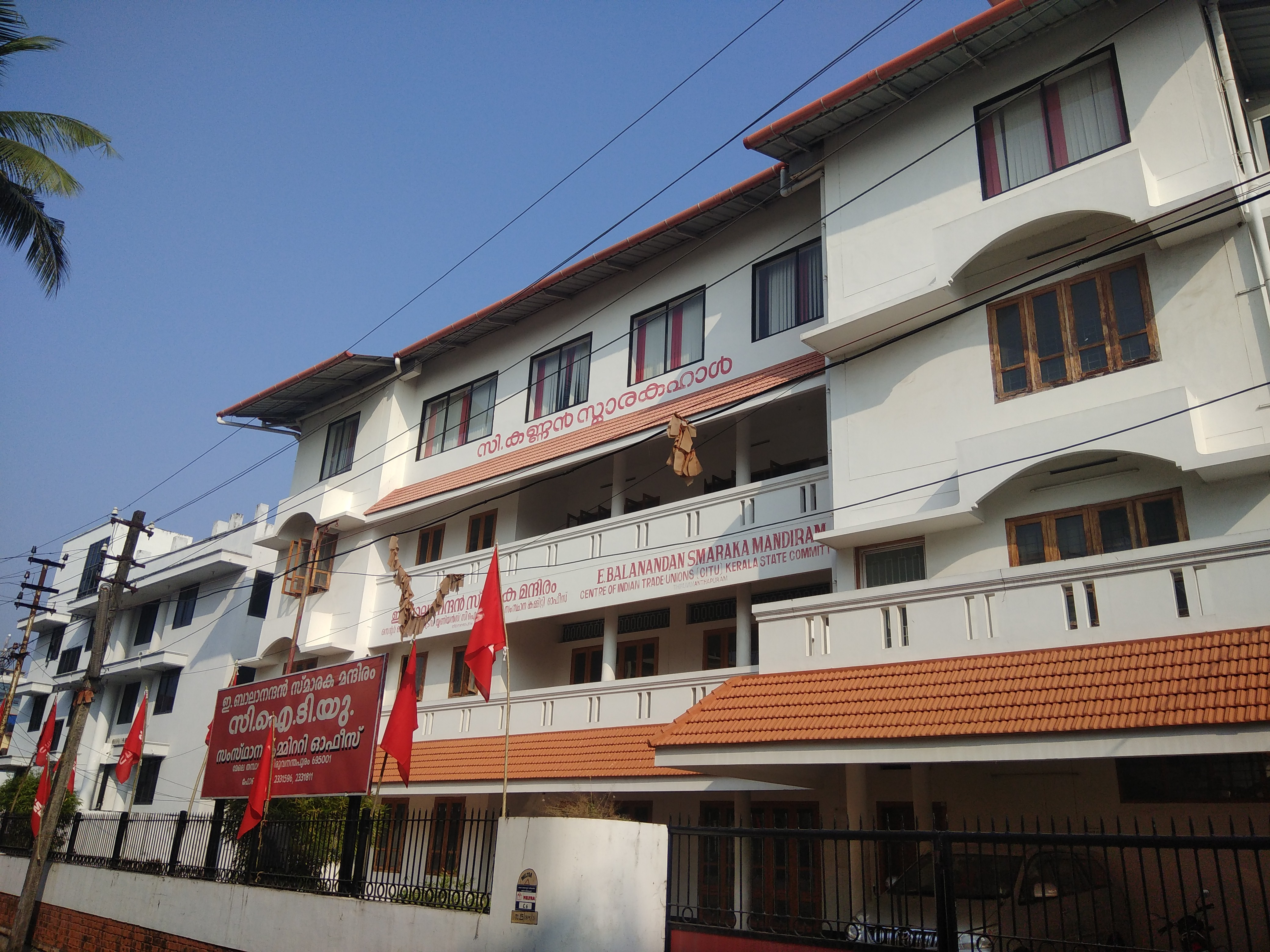 E balanandan smaraka mandiram BTR Lane Thiruvananthapuram